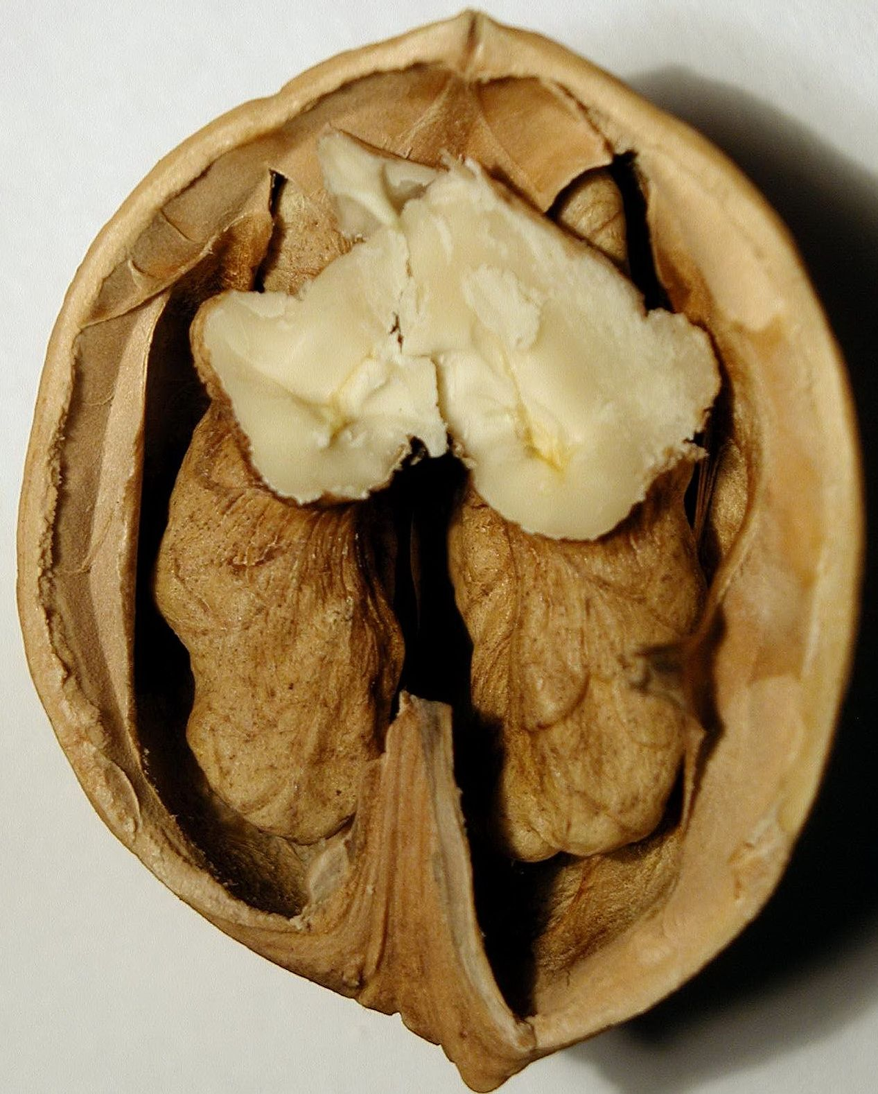 Image title: Nut fruit closup Image from Public domain images website